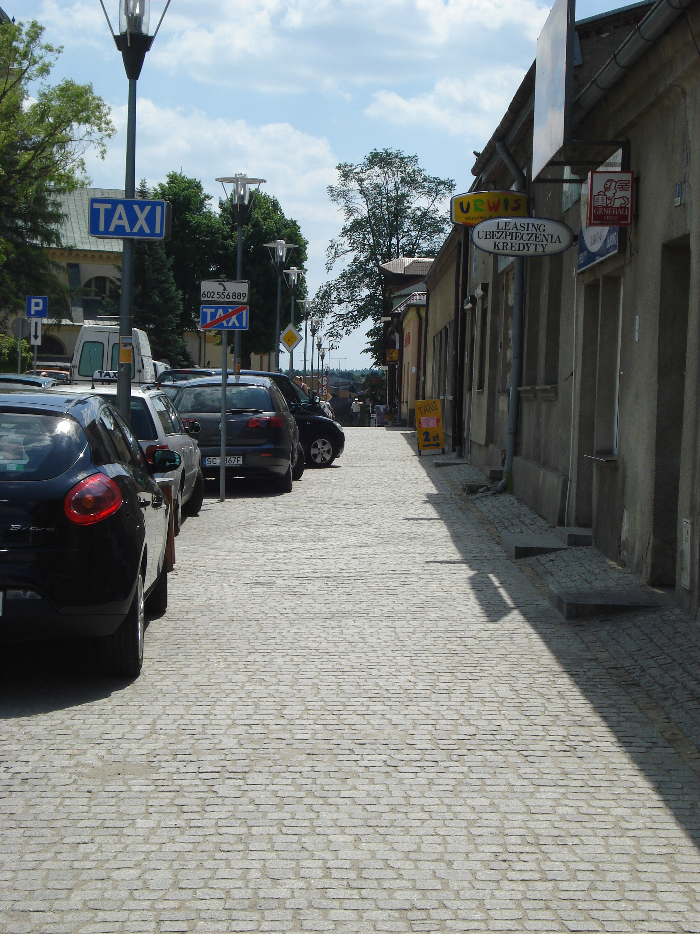 Market Square in Kłobuck